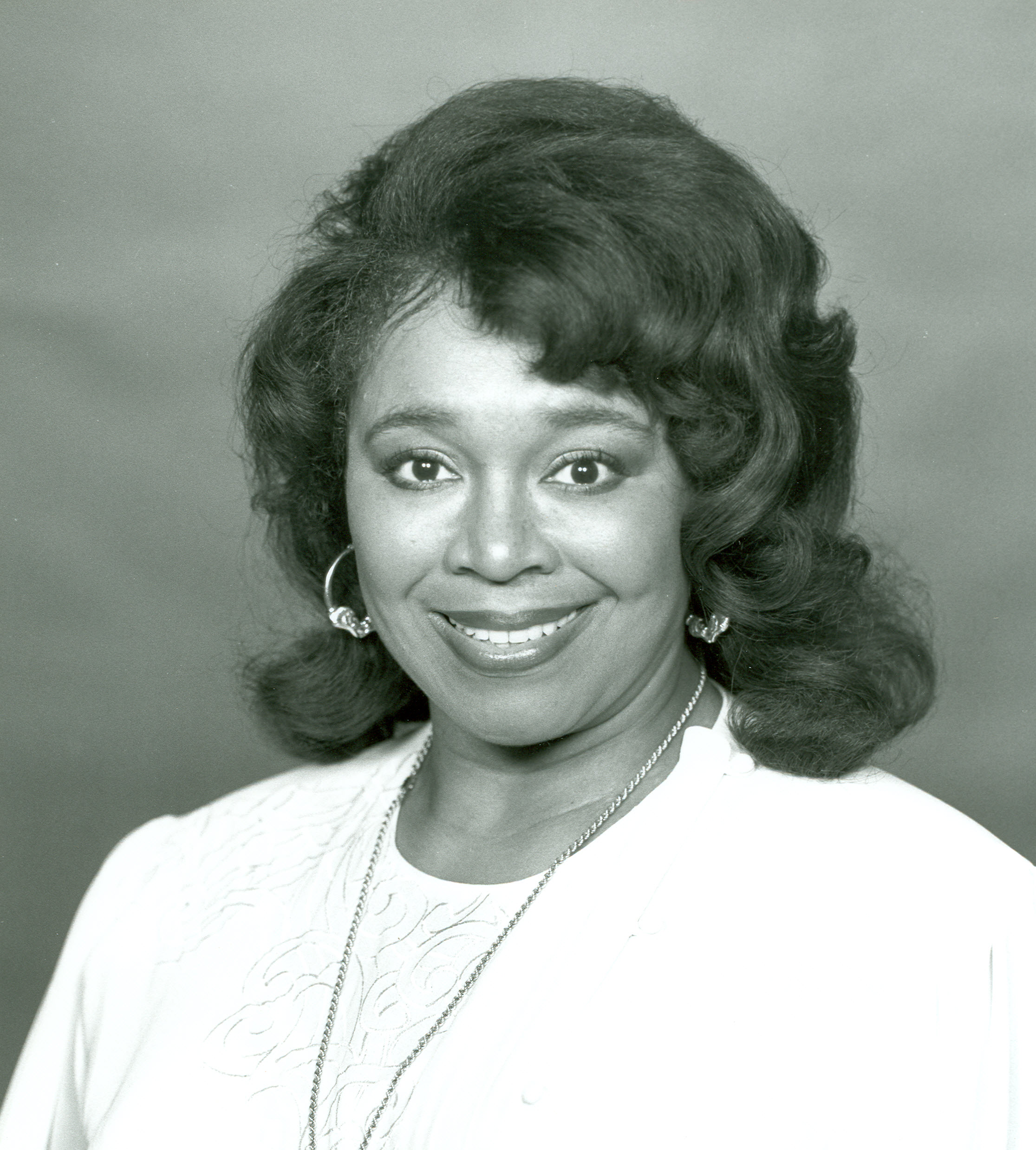 Barbara-Rose Collins, member of the United States House of Representatives.